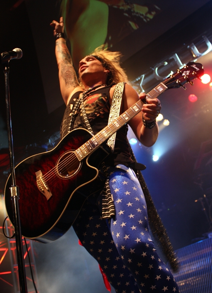 Ralph Saenz performing with Steel Panther at the Key Club on October 13, 2008.